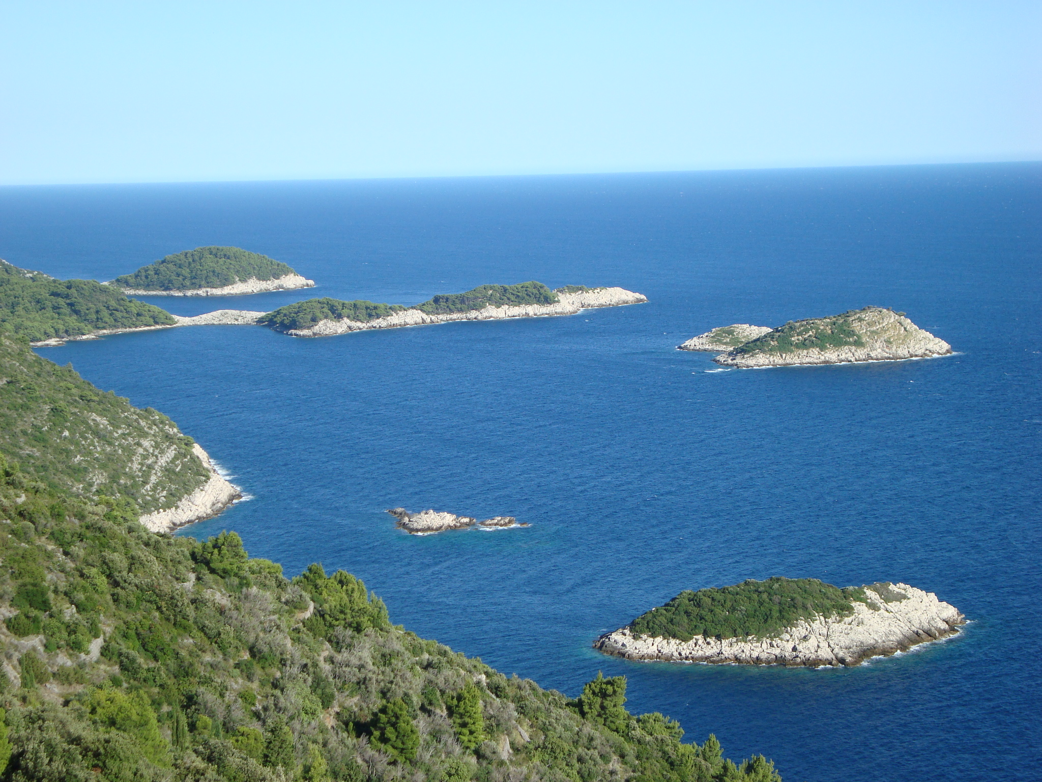 The south coast of the island Mljet, Croatia